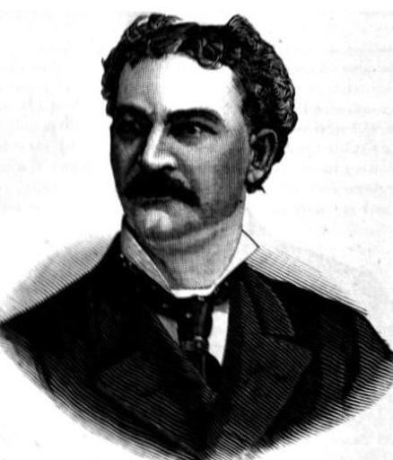 Robert Jarvis Cochran Walker, US Representative from Pennsylvania